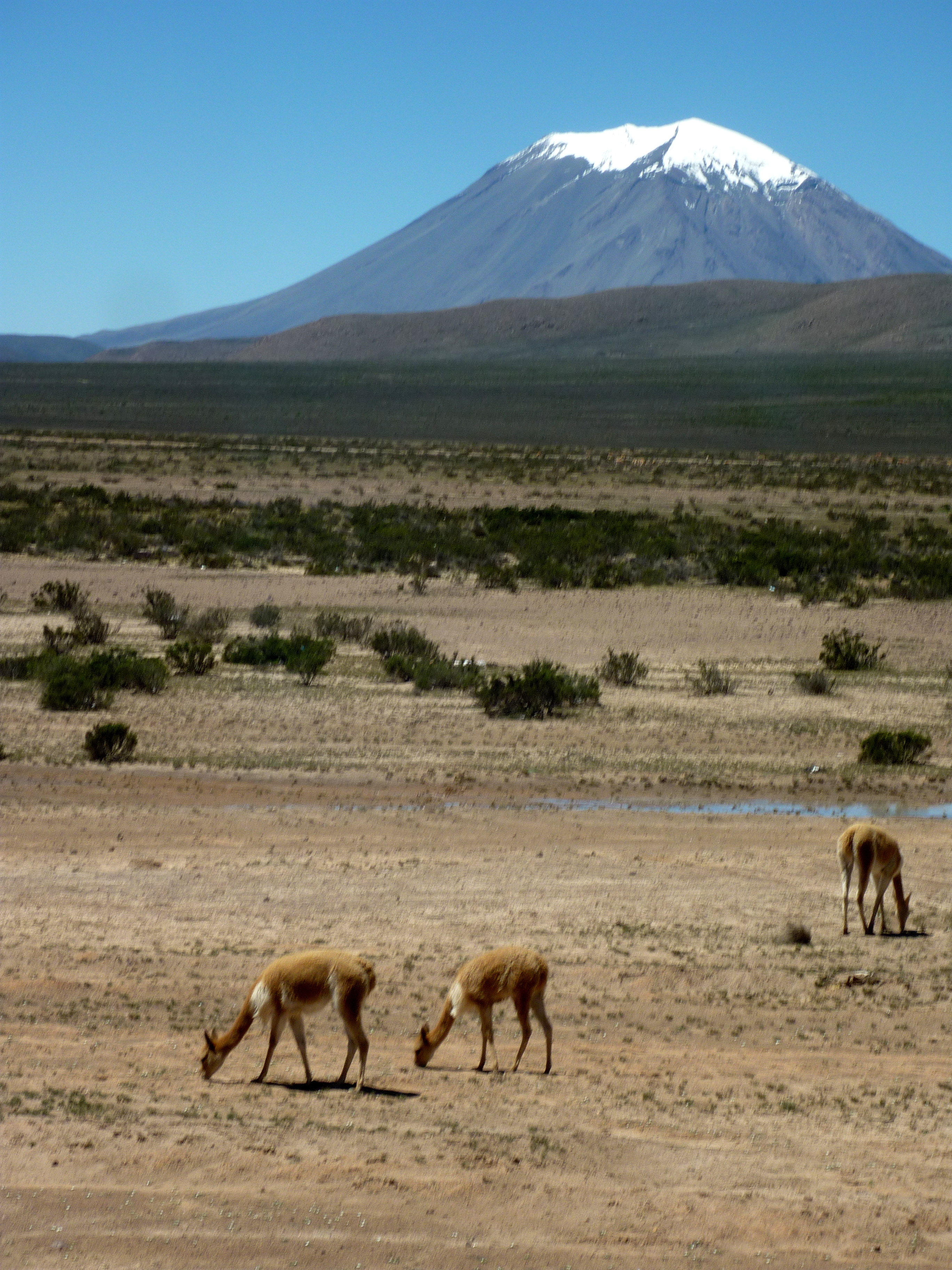 Snow-covered Misti, direction facing away from Arequipa